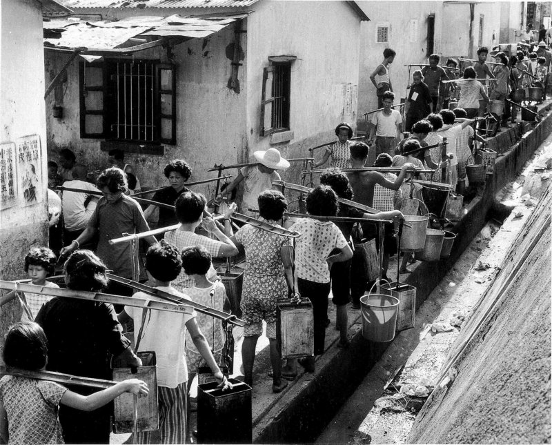 Residents in Hong Kong queuing for fresh water during water rationing imposed by WSD between 1963-64.中文（香港）: 香港1963年實施制水期間，居民排隊等候取水。